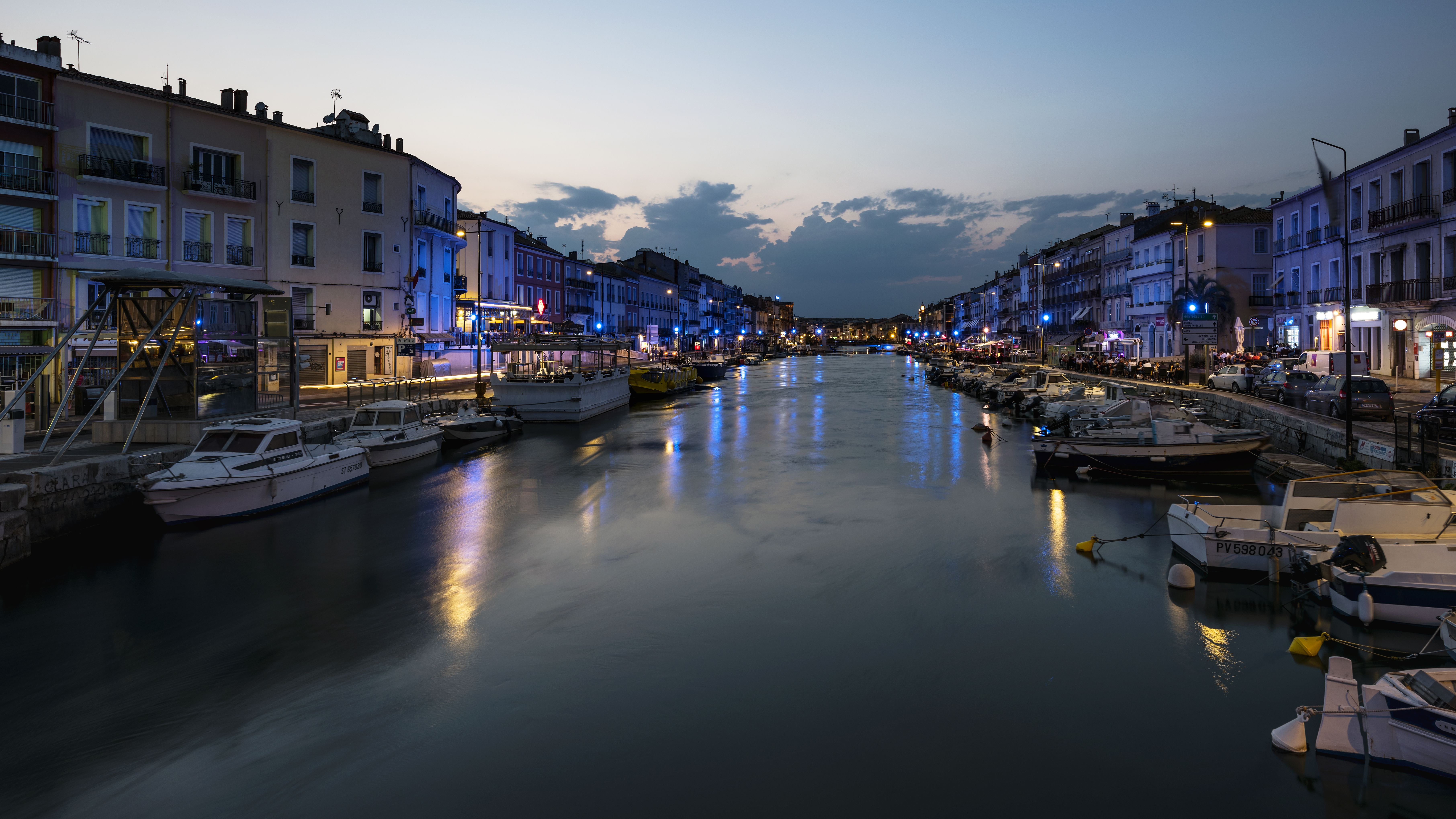 The Canal of Sète at dusk. Hérault, France.